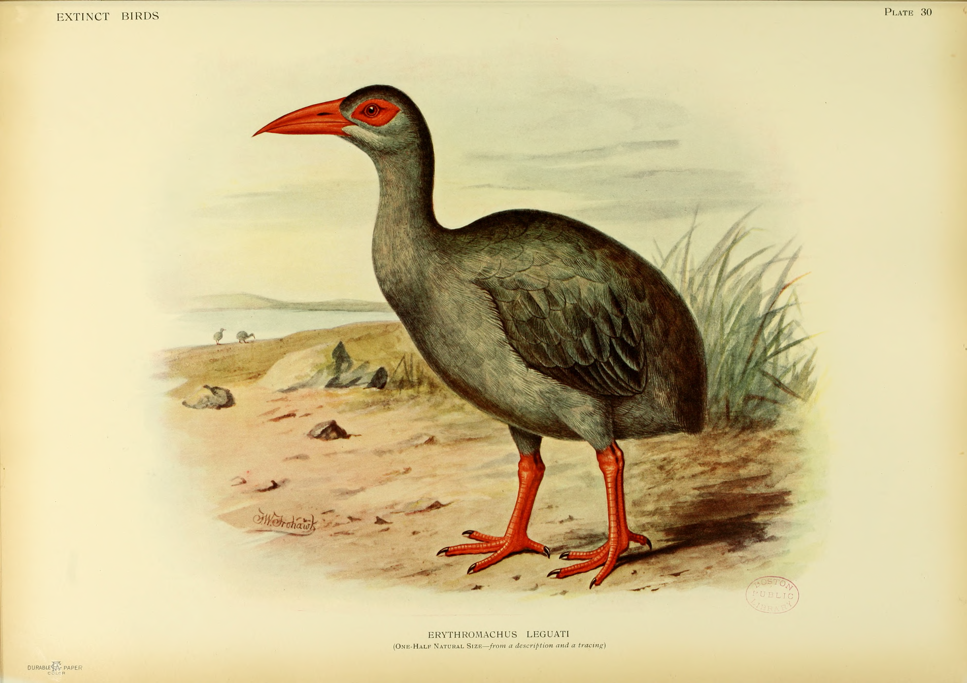 The Rodrigues Rail or Leguat's Gelinote (Aphanapteryx leguati) is an extinct bird named after the learned traveller François Leguat, who came with a band of Huguenot religious refugees to Rodrigues in 1691 and stayed there for three years.